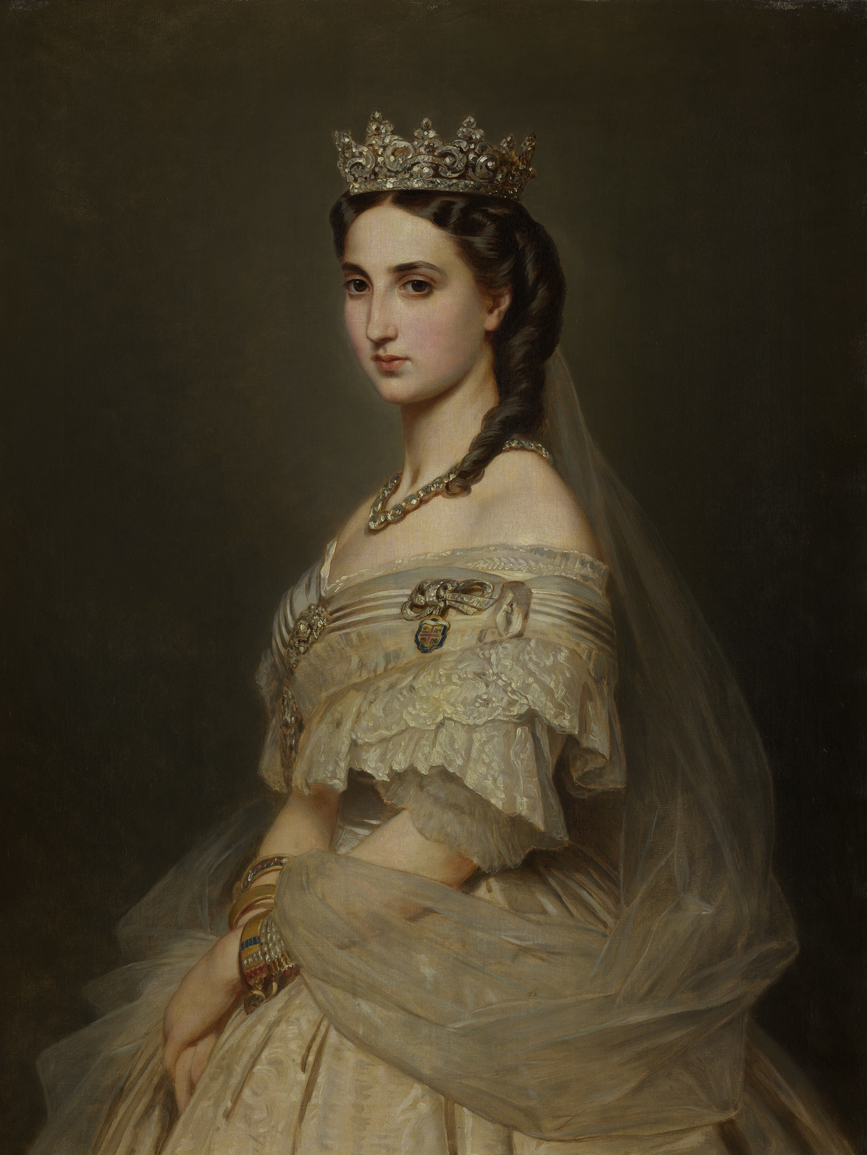 Princess Charlotte of Belgium, Empress of Mexico (1840-1927)